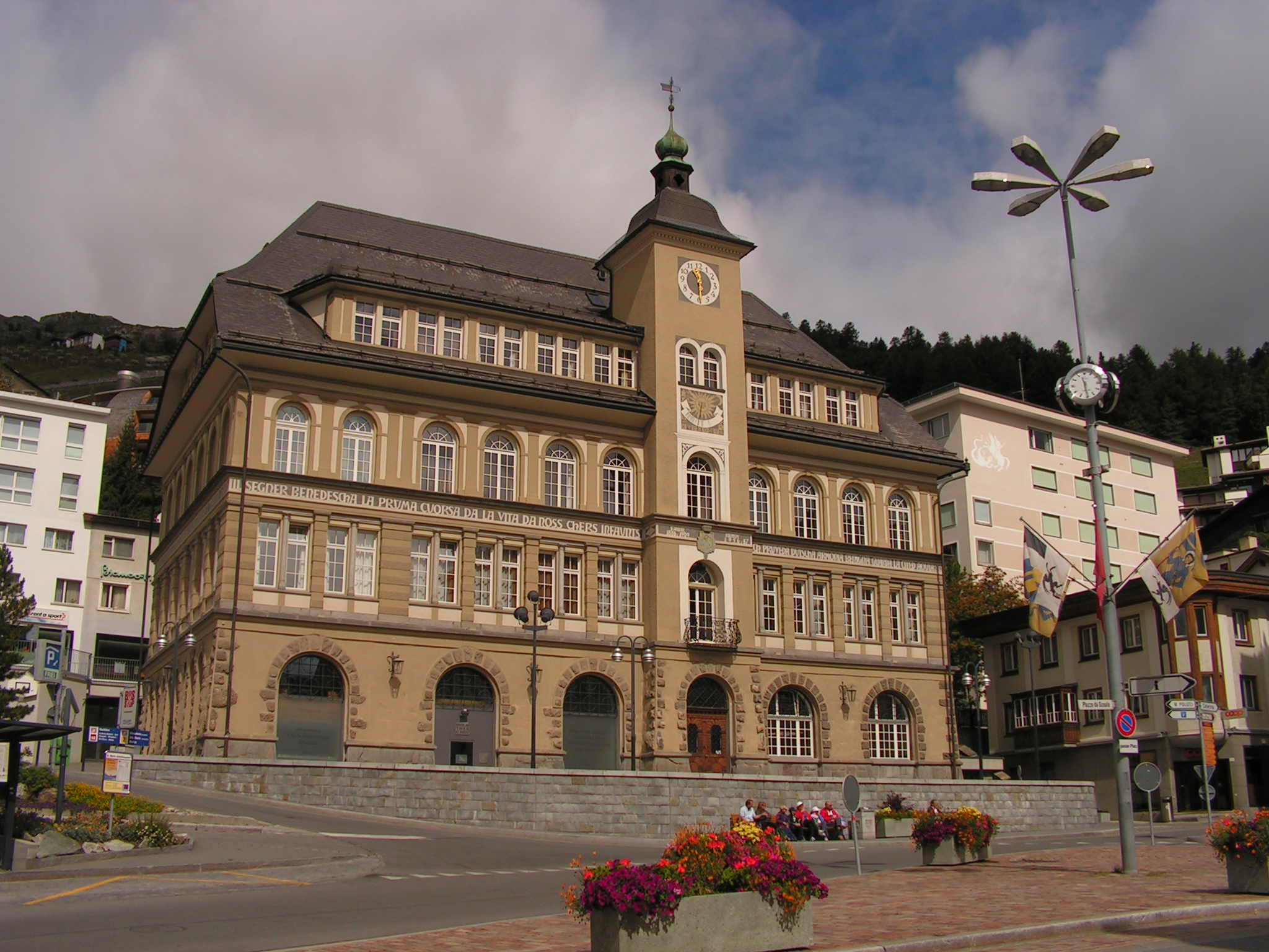 The Library of Sankt Moritz